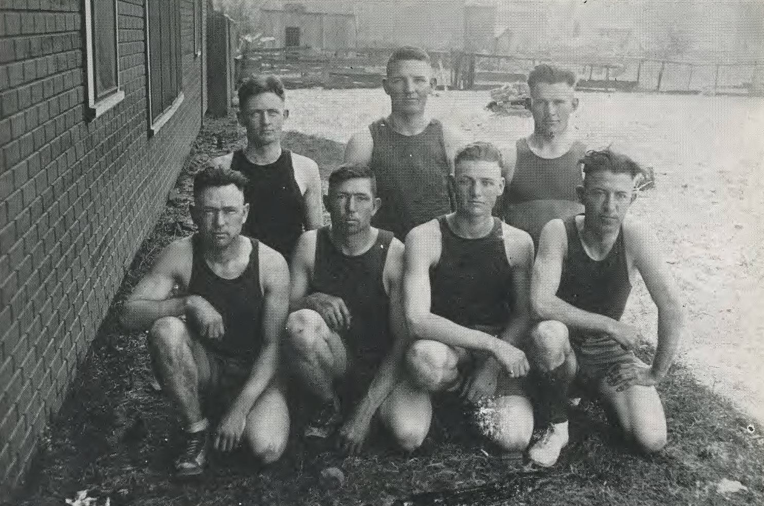 The East Texas State Normal College men's basketball team.